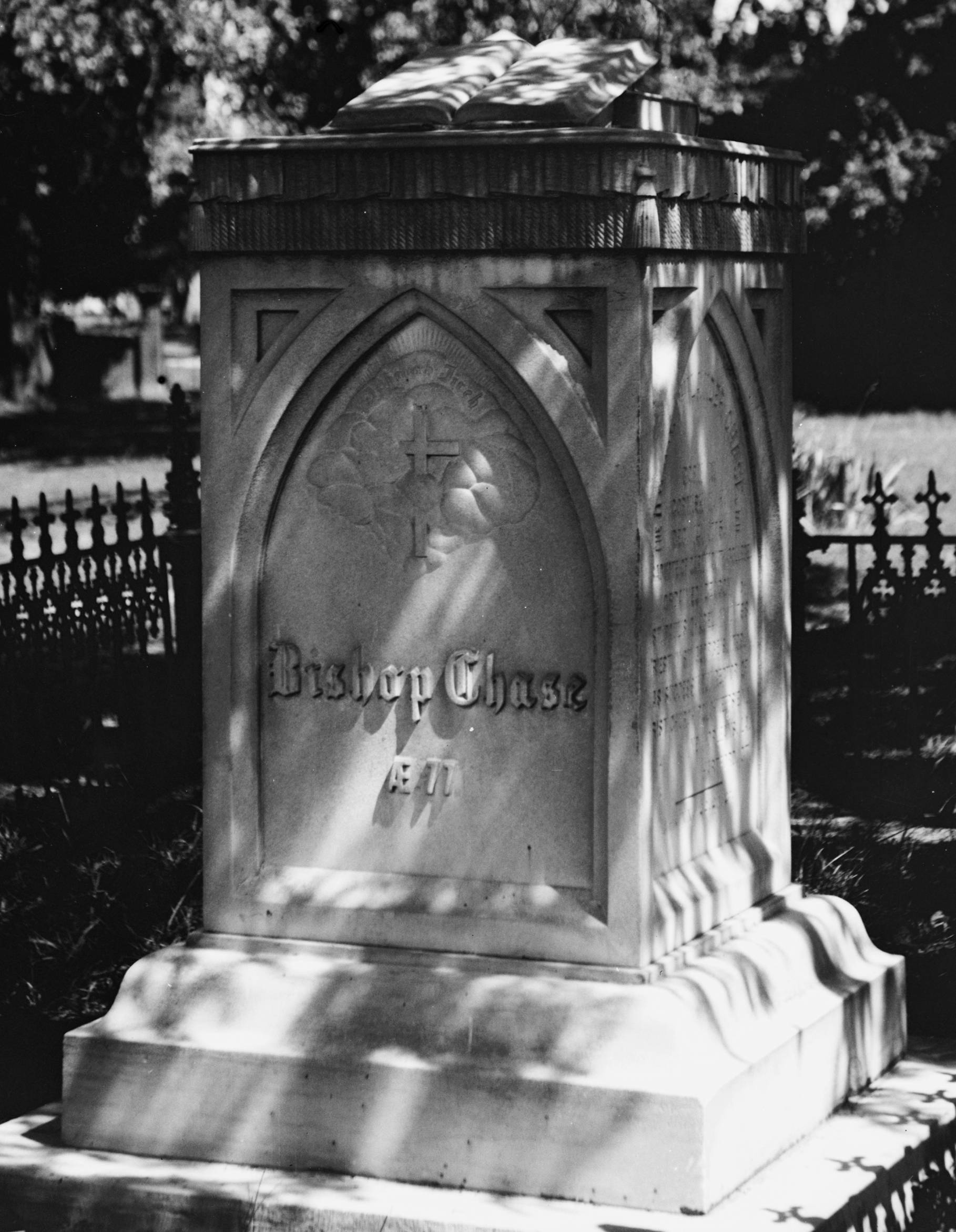 cropped to monument: HISTORIC AMERICAN BUILDINGS SURVEY L.A.ARONS, PHOTOGRAPHER JULY 1935. VIEW FROM SOUTHWEST - Jubilee College, near Brimfield, Peoria County, IL